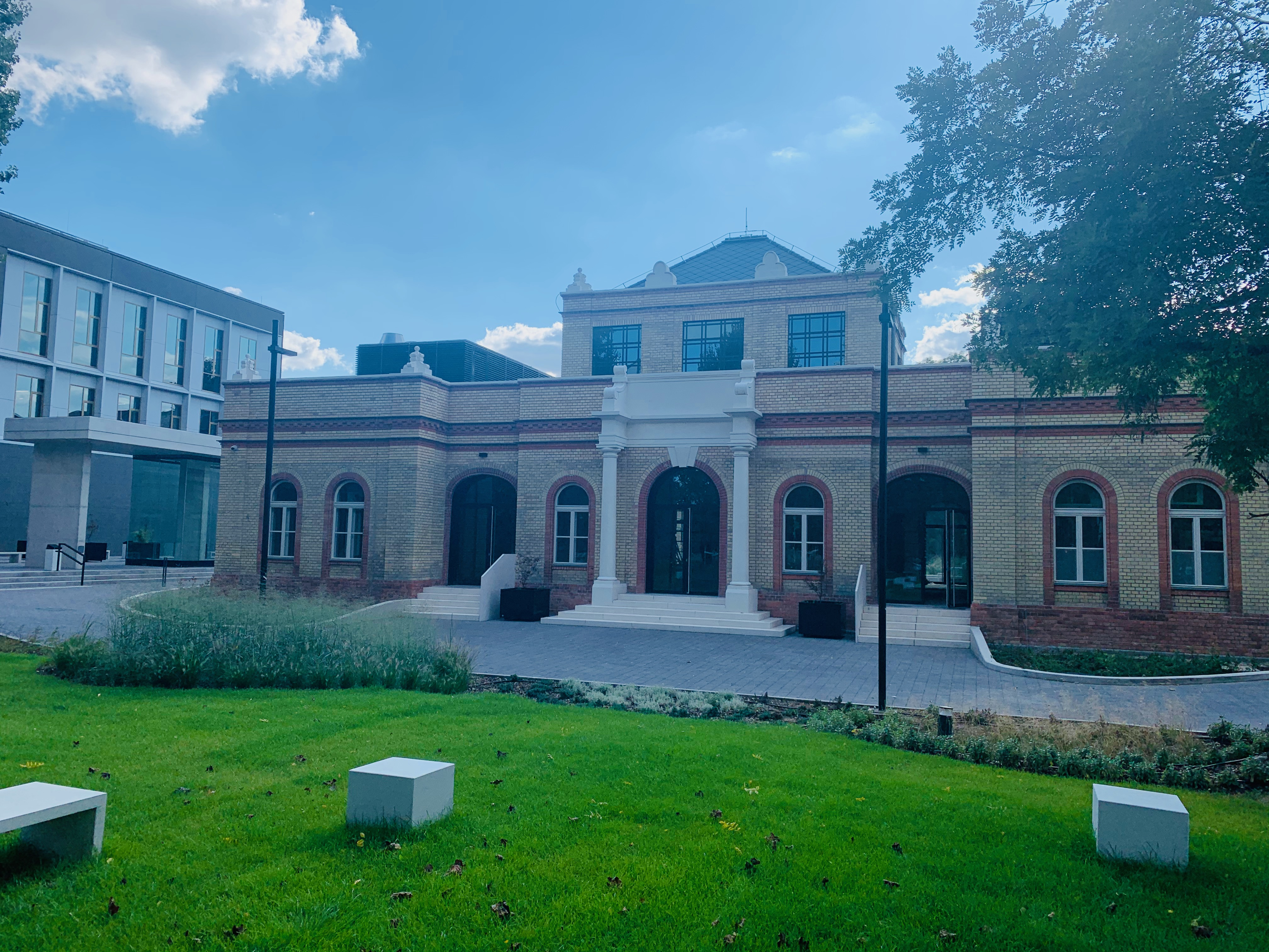 ORSZÁGOS MÚZEUMI RESTAURÁLÁSI ÉS RAKTÁROZÁSI KÖZPONT